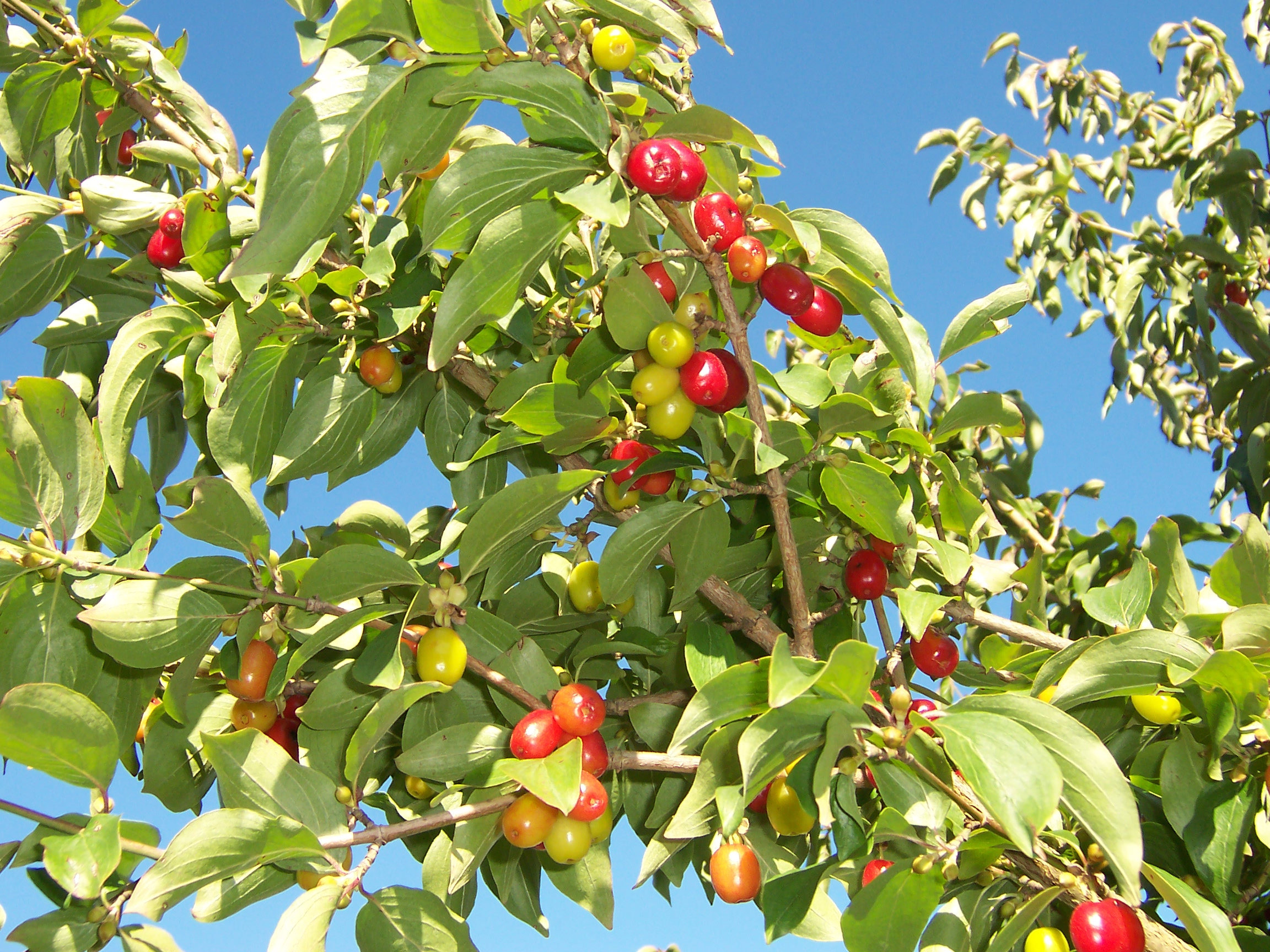 fruits of Cornus mas photgraphed in public gardens of Saint-Pierre-le-Moutier (Nièvre)